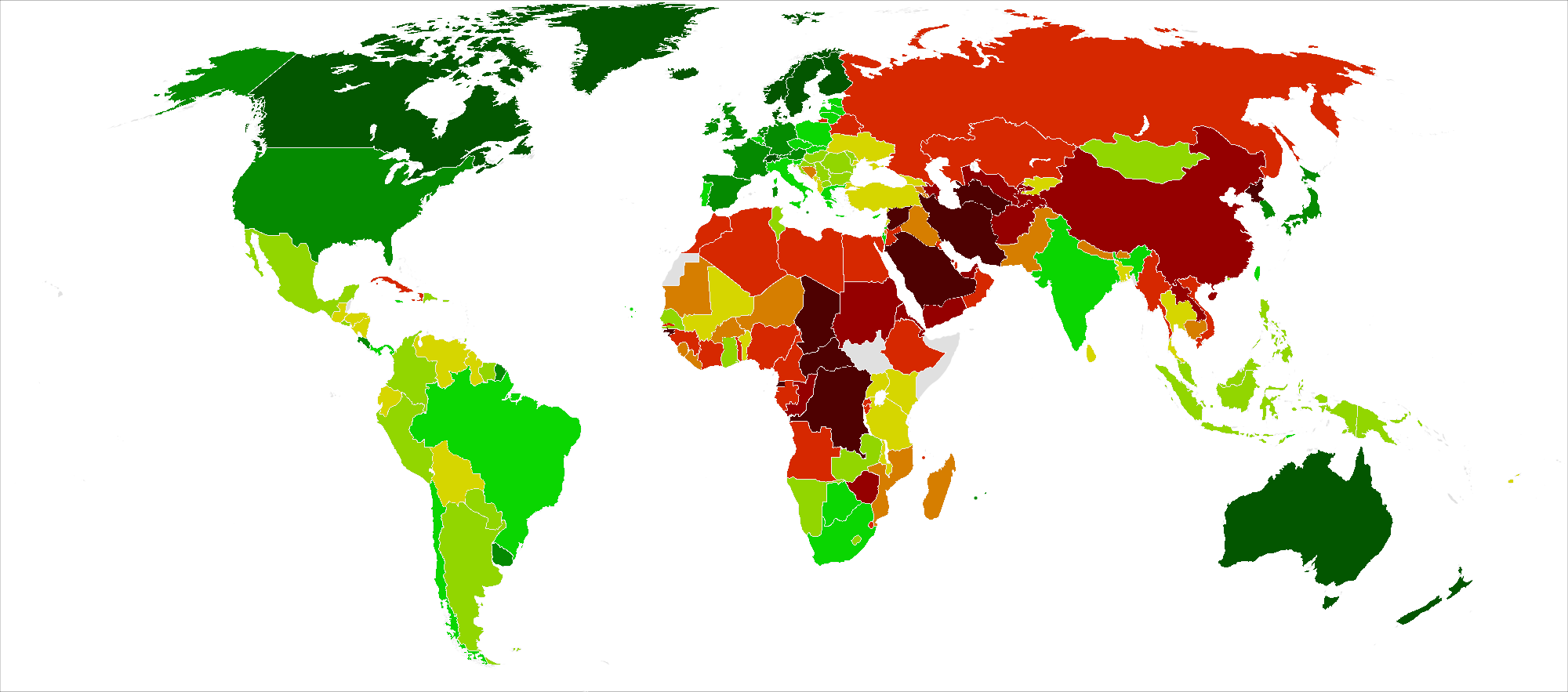 The Economist Intelligence Unit Democracy index map for 2014. Greener colours represent more democratic countries. Key: Full democracies: 9.01-10.00 8.01-9.00 Flawed democracies: 7.01-8.00 6.01-7.00Hybrid regimes: 5.01-6.00 4.01-5.00 Authoritarian regimes: 3.01-4.00 2.01-3.00 0.00-2.00 Insufficient information, no rating